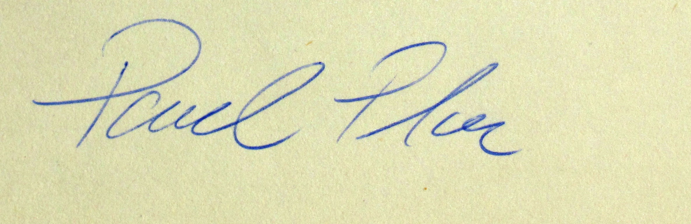 Signature of Pavel Ploc, Czech sportsman and Member of Parliament of the Czech Rep. (1984)